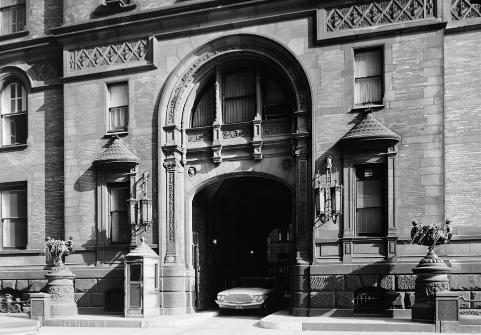 The Dakota Building, Manhattan, New York City. South entrance. Image courtesy of Historic American Buildings Survey—HABS.